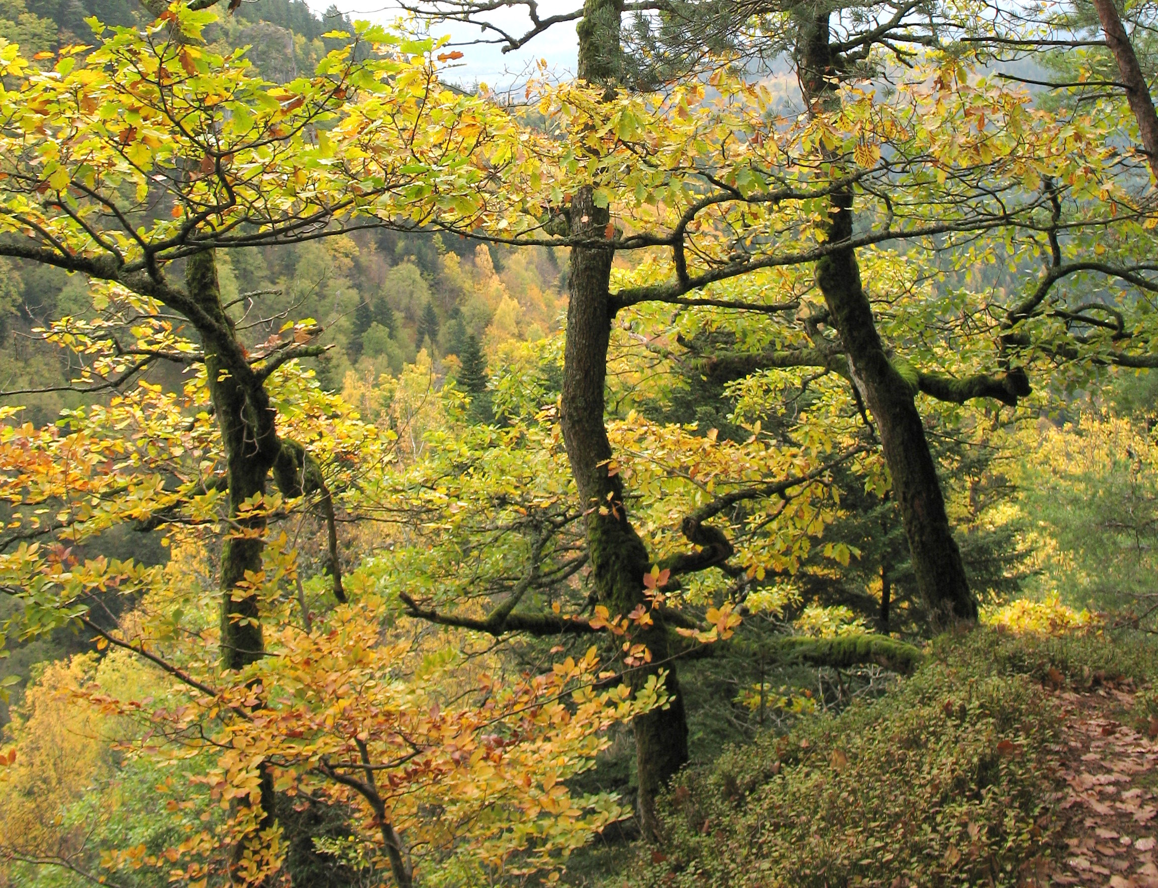 See where this picture was taken. [?]